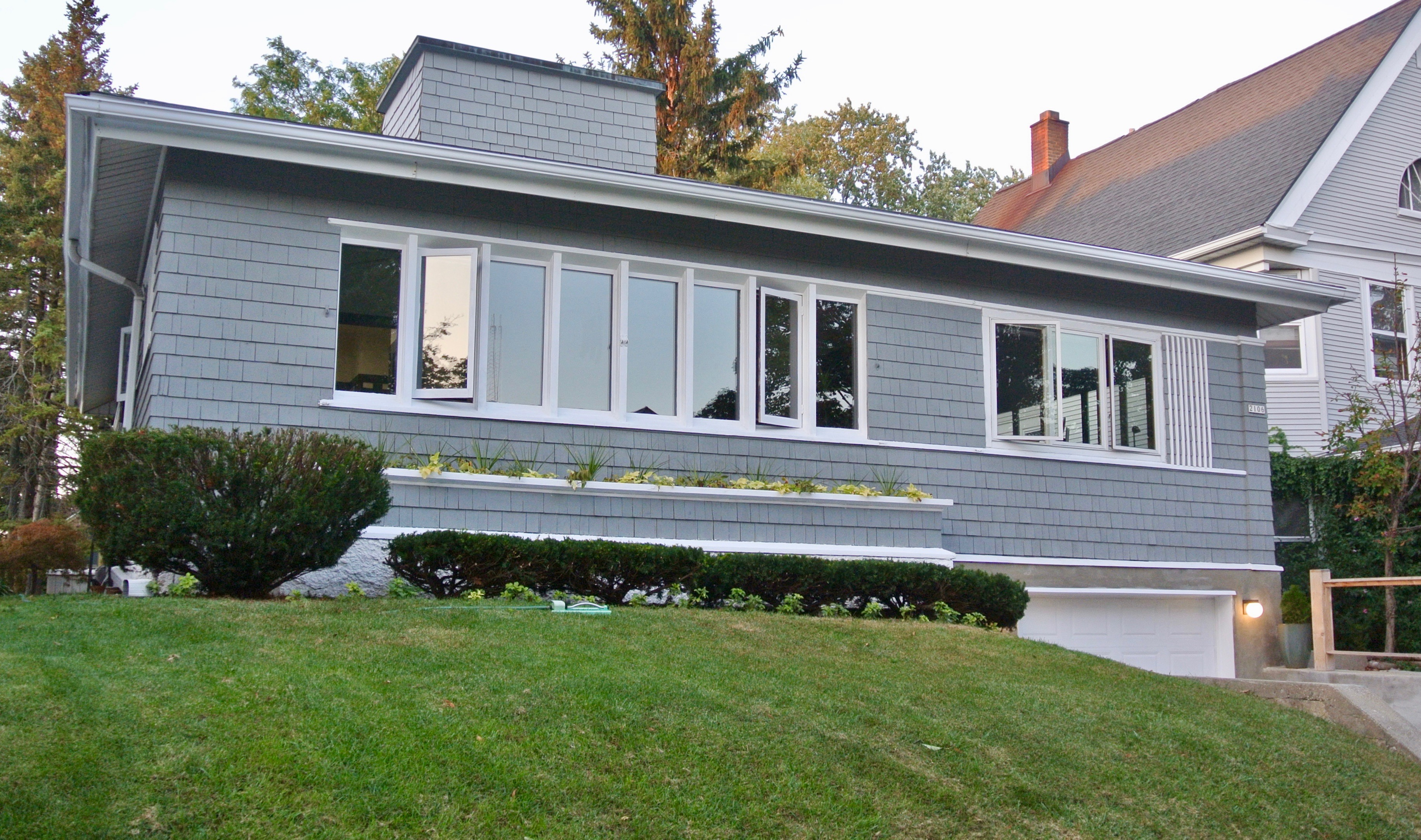 American System-Built Home A203, Elizabeth Murphy House, Shorewood, WI.